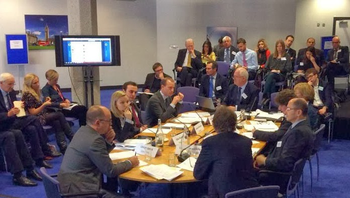 Photo of Open Europe's EU War Game in action